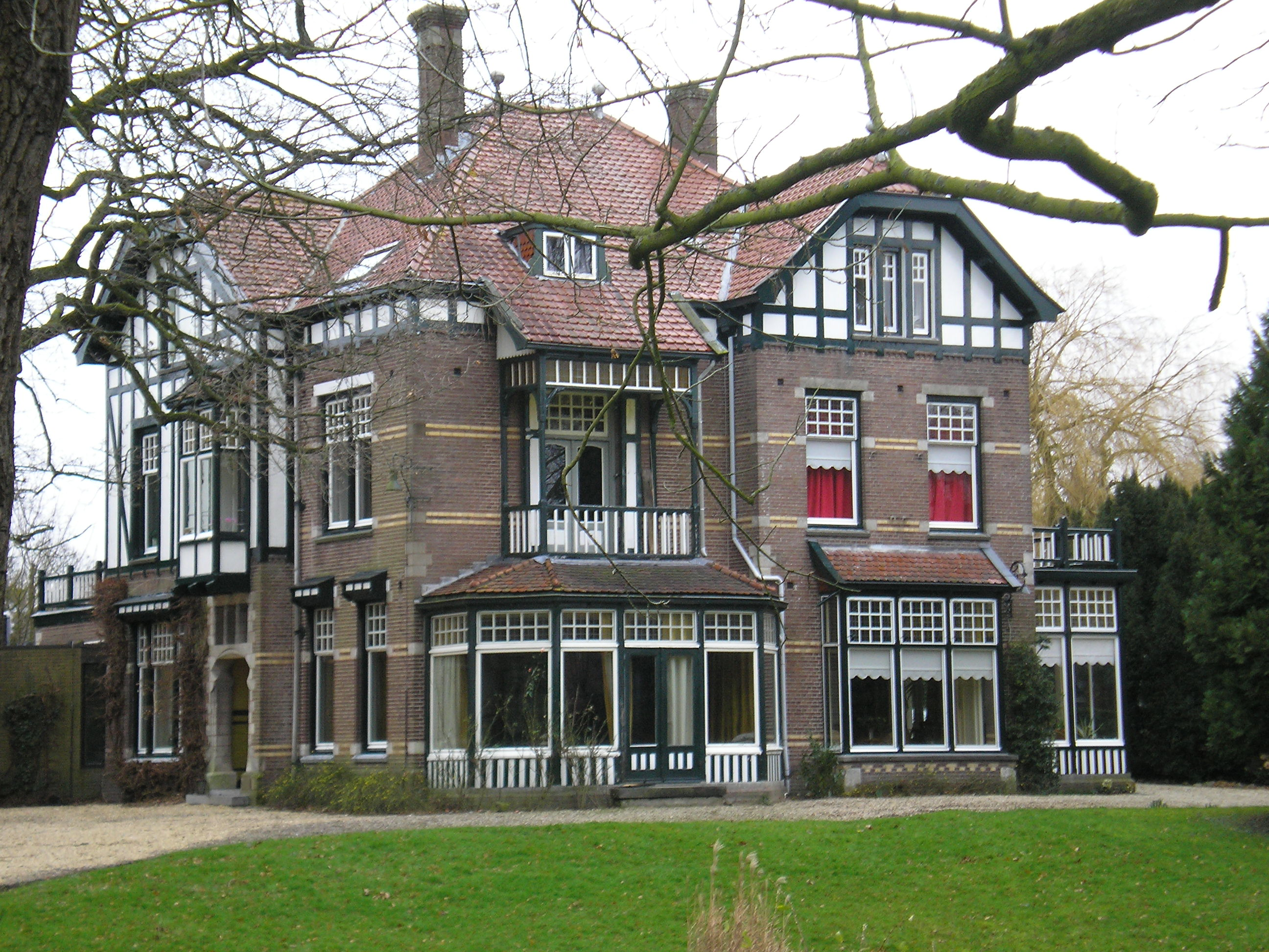 Herenweg 33 Houten in the Netherlands